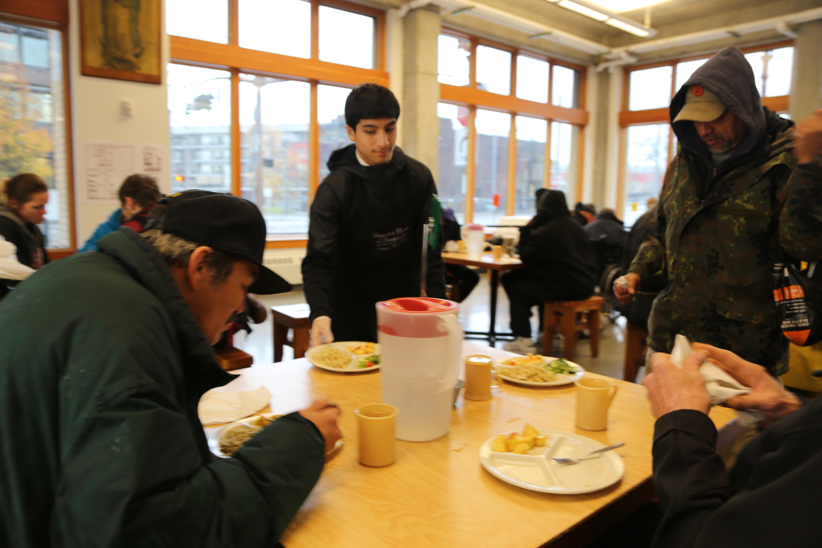 Anyone in need of a meal is welcome at the Blanchet House Founders Cafe.